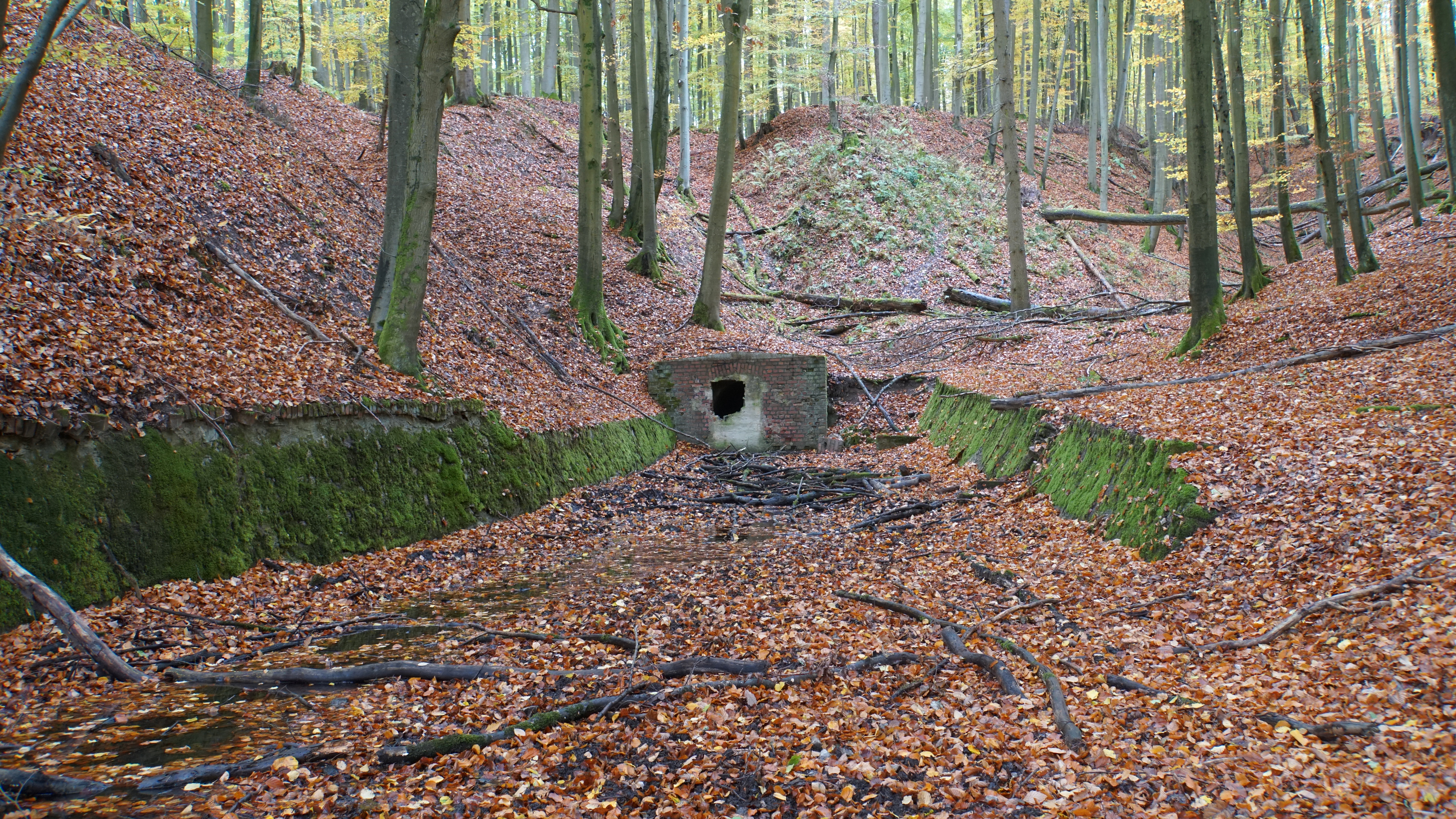 Zollhaus mine. Barbara adit